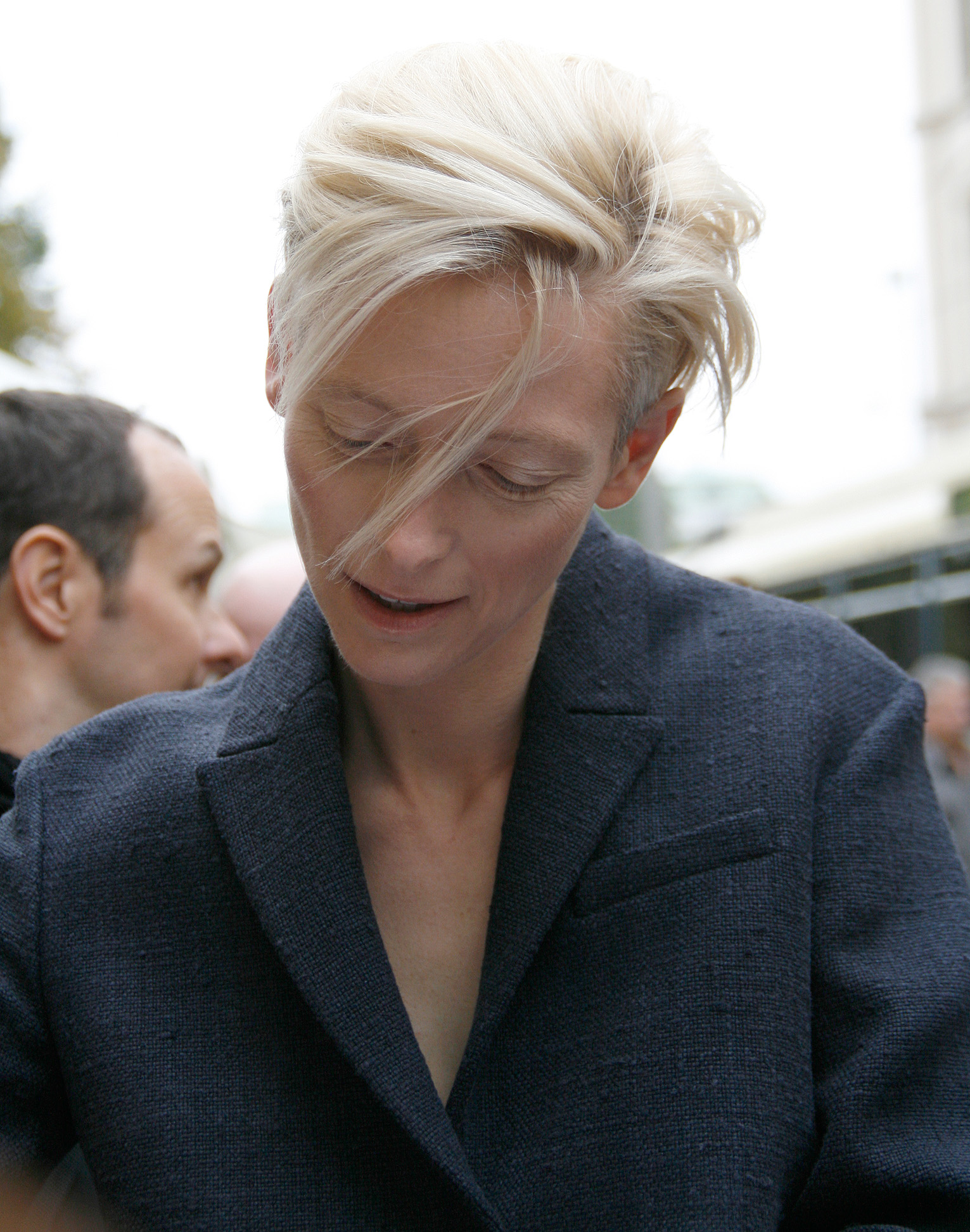 Tilda Swinton signing autographs before attending the screening of her movie Cycling The Frame at the Künstlerhaus during the Vienna International Film Festival 2009.